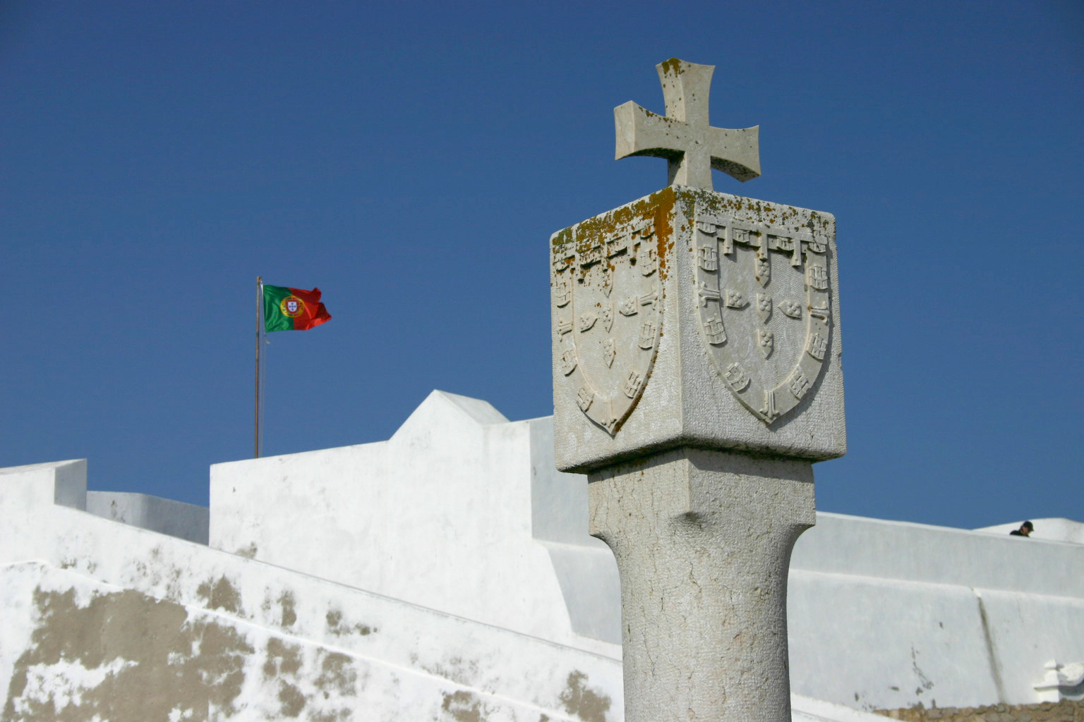 Autor: António ML Cabral Esta foto pode ser usada para qualquer tipo de utilização com a condição de ser indicado o nome do autor. This picture can be used for all kinds of usage with the condition of the author's name to be indicated.